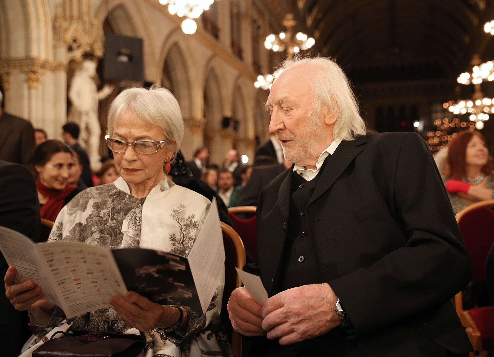 Christine Ostermayer and Karl Merkatz, Austrian Film Awards 2013 (Vienna).